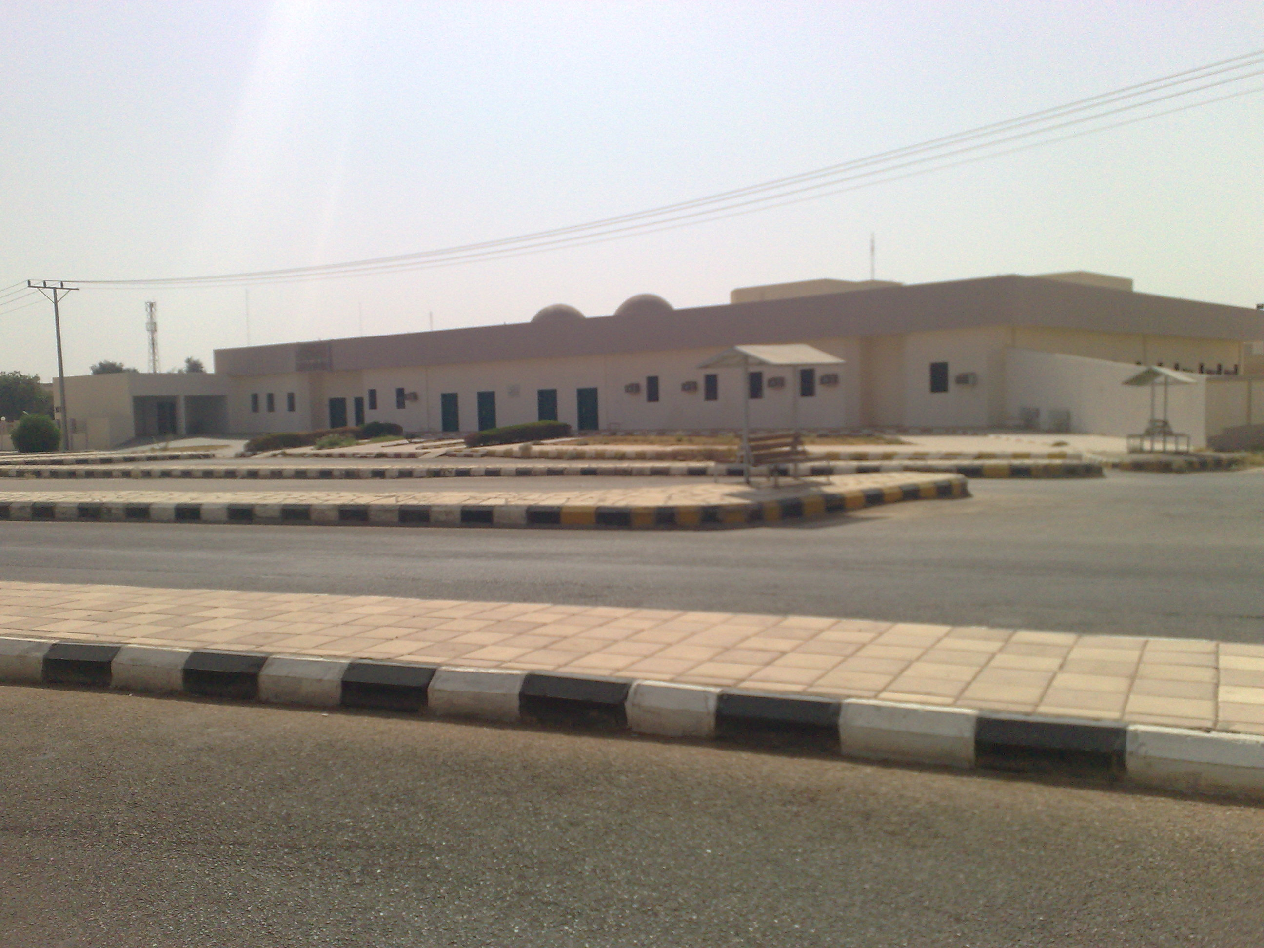 Shaqra province hospital(old)